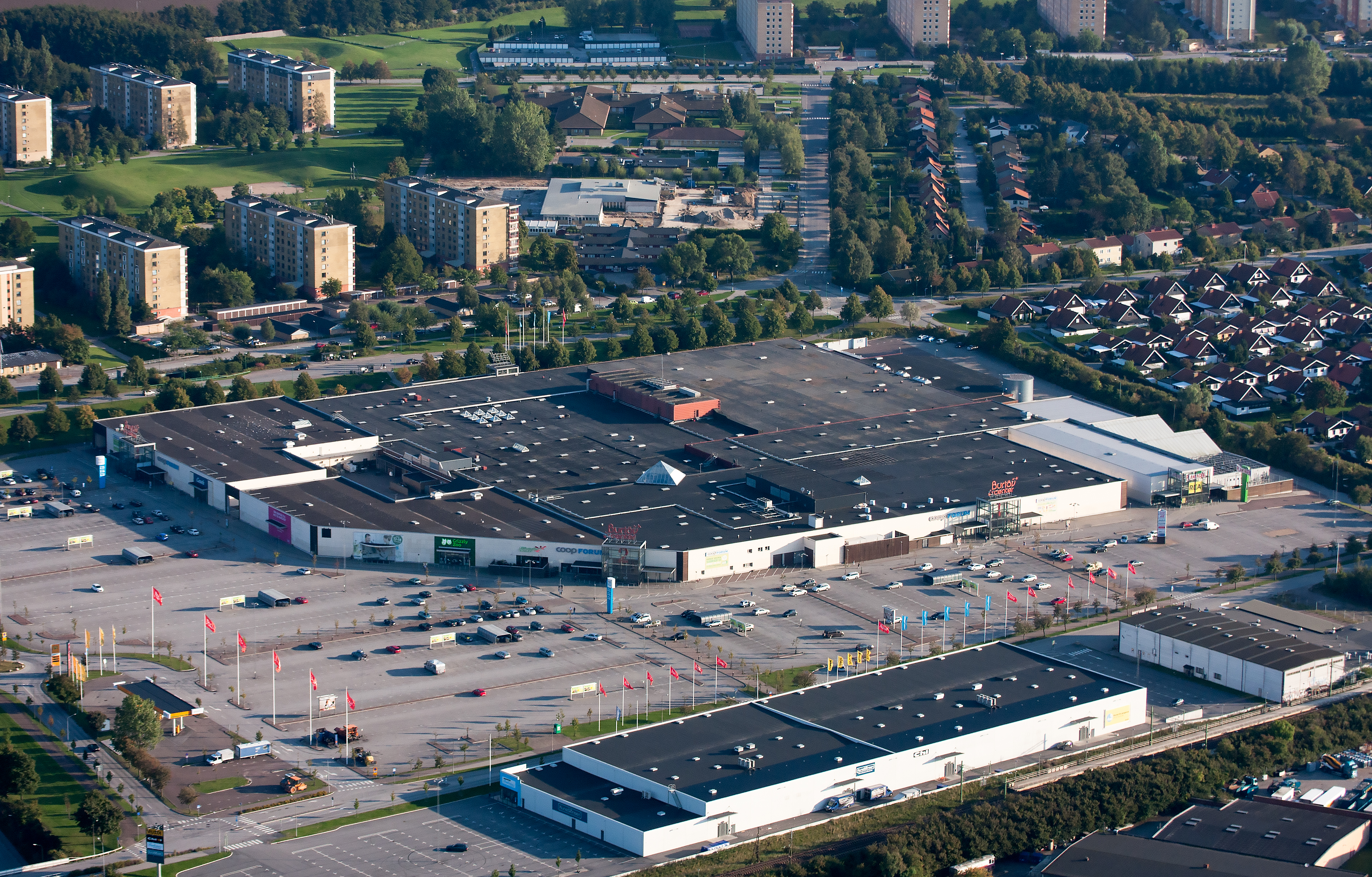 Burlöv center, shopping mall in Arlöv, Sweden.